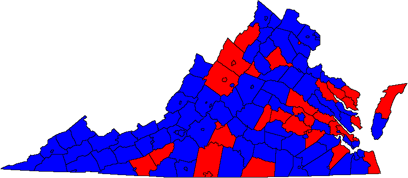 Map showing county choices of the 1985 gubernatorial election in Virginia, between Democrat Gerald Baliles and Republican Wyatt Durrette